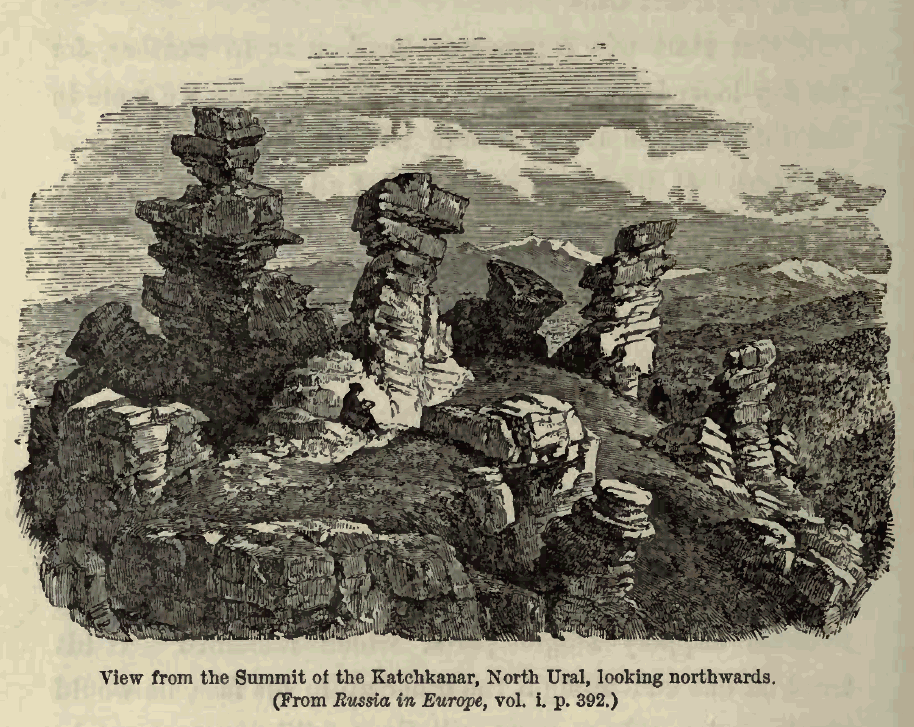 View from the Summit of the Katchkanar, North Ural, looking northwards